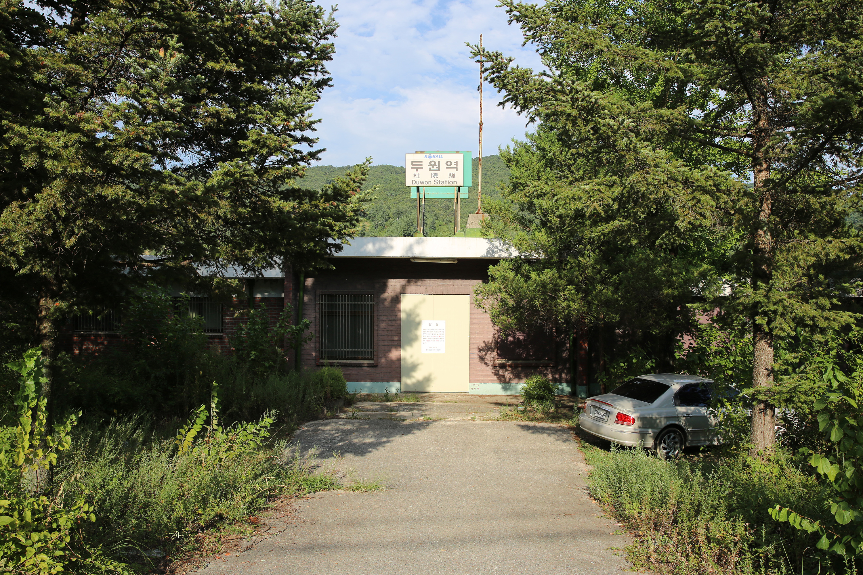 Obverse of Building from a Road to Duwon Station